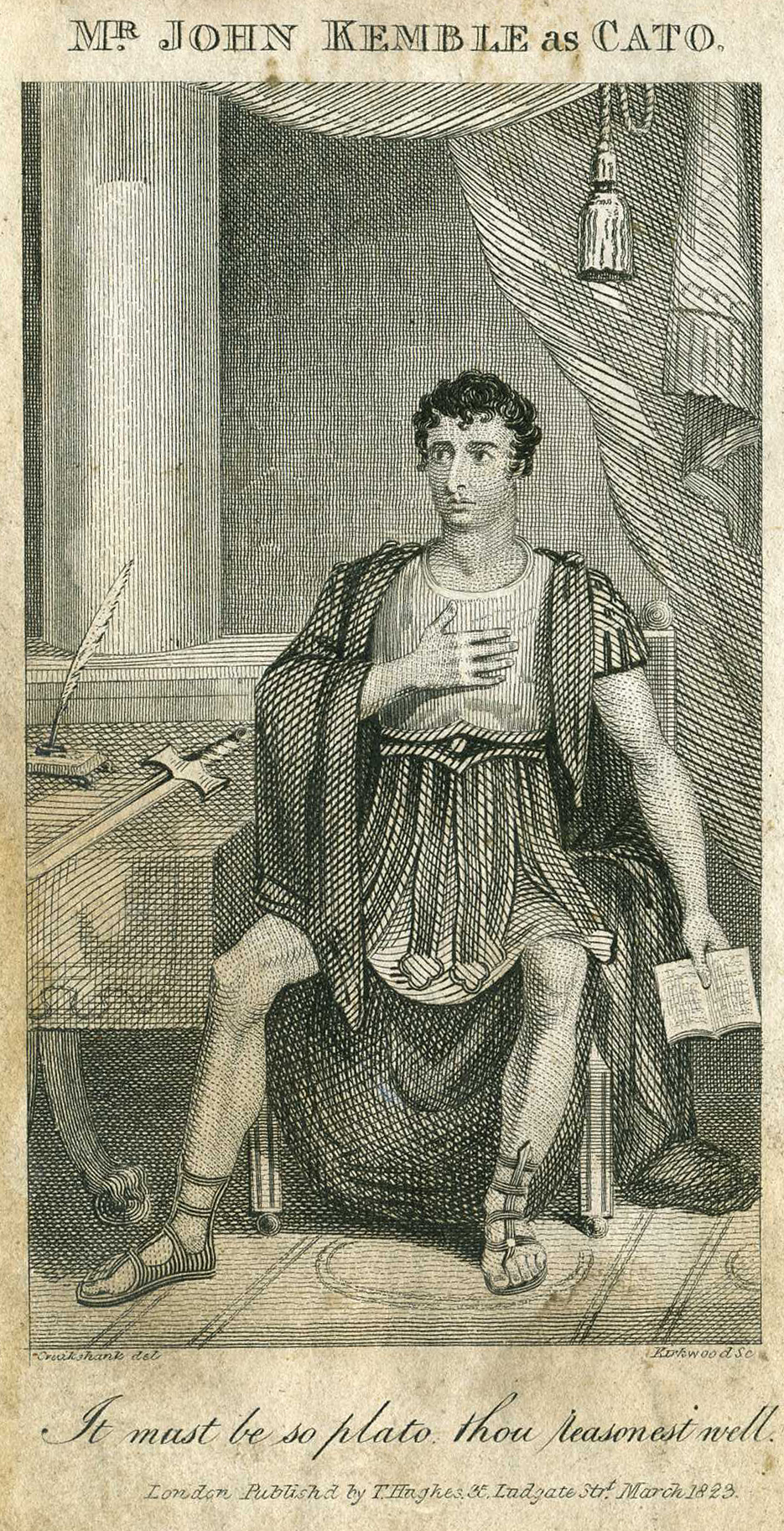 This is a scan of an engraving of John Kemble in the role of Cato in the drama of that name by Addison. Kemble appeared in the role at Covent Garden in 1816.